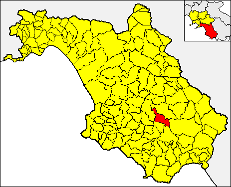 Locator map of the municipality of Valle dell'Angelo (red) within the Province of Salerno